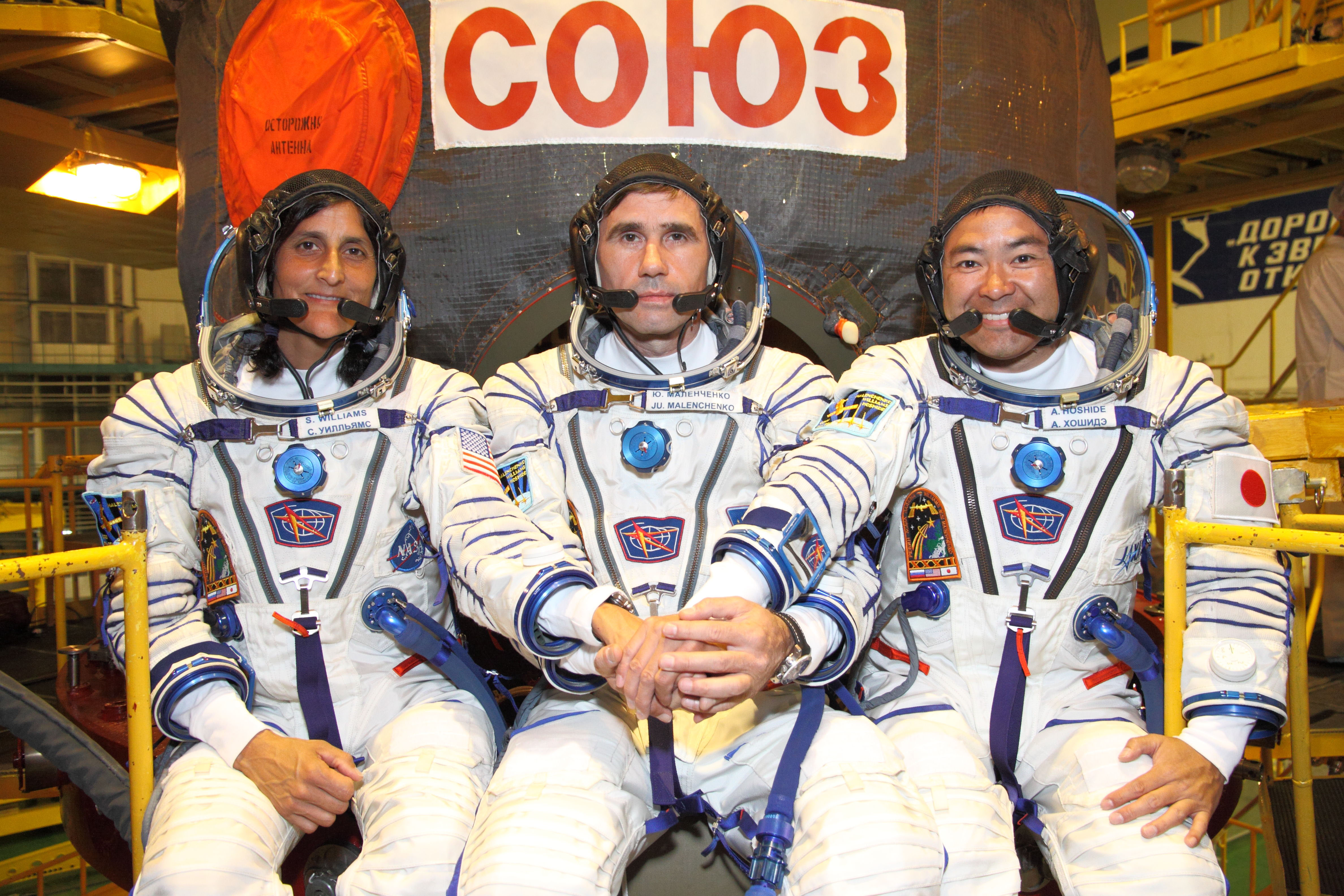 At the Baikonur Cosmodrome in Kazakhstan, Expedition 32 Flight Engineer Sunita Williams (left) of NASA, Soyuz Commander Yuri Malenchenko (center) and Flight Engineer Aki Hoshide of the Japan Aerospace Exploration Agency take a moment to pose for photos July 3, 2012 in front of their Soyuz TMA-05M spacecraft during a suited "fit check" of the vehicle. The trio is scheduled to launch in the Soyuz July 15 (Kazakhstan time) to the International Space Station.